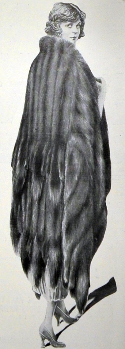 Debenham & Freebody advertisement, from: Illustrated Sporting and Dramatic News, 1921 (advertising crop)